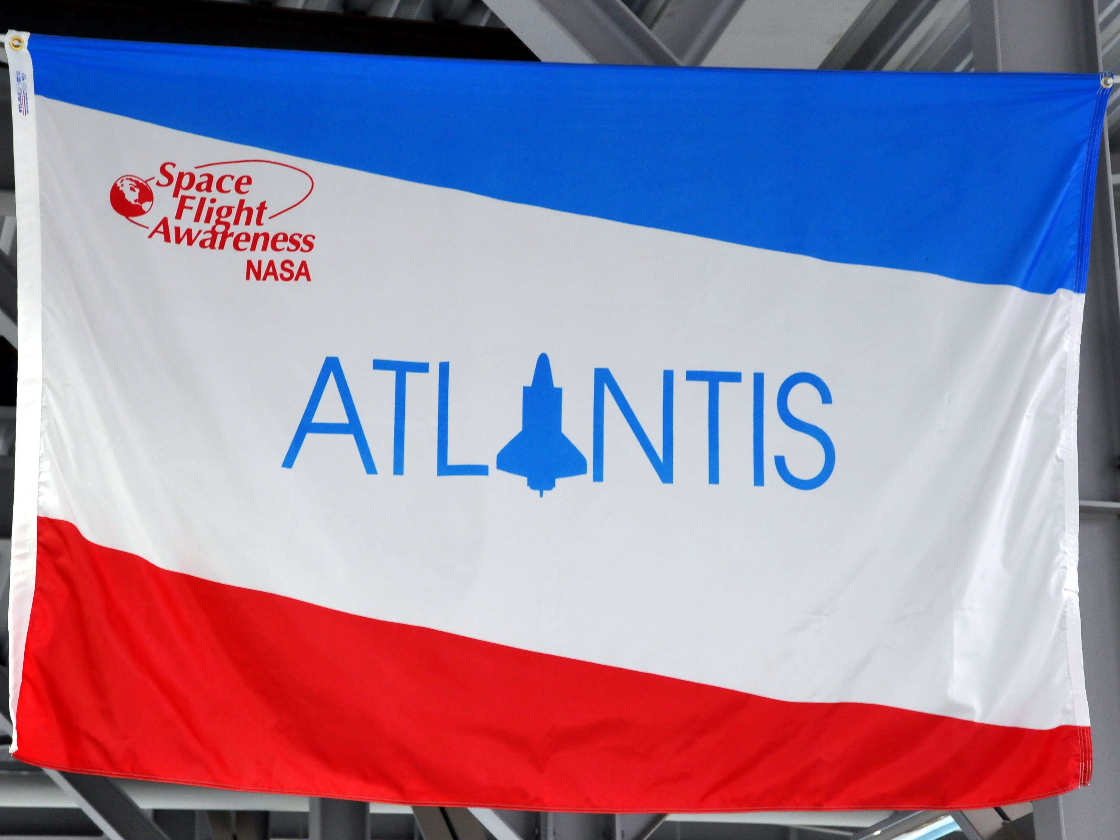 Flag of the Spaceshuttle Atlantis